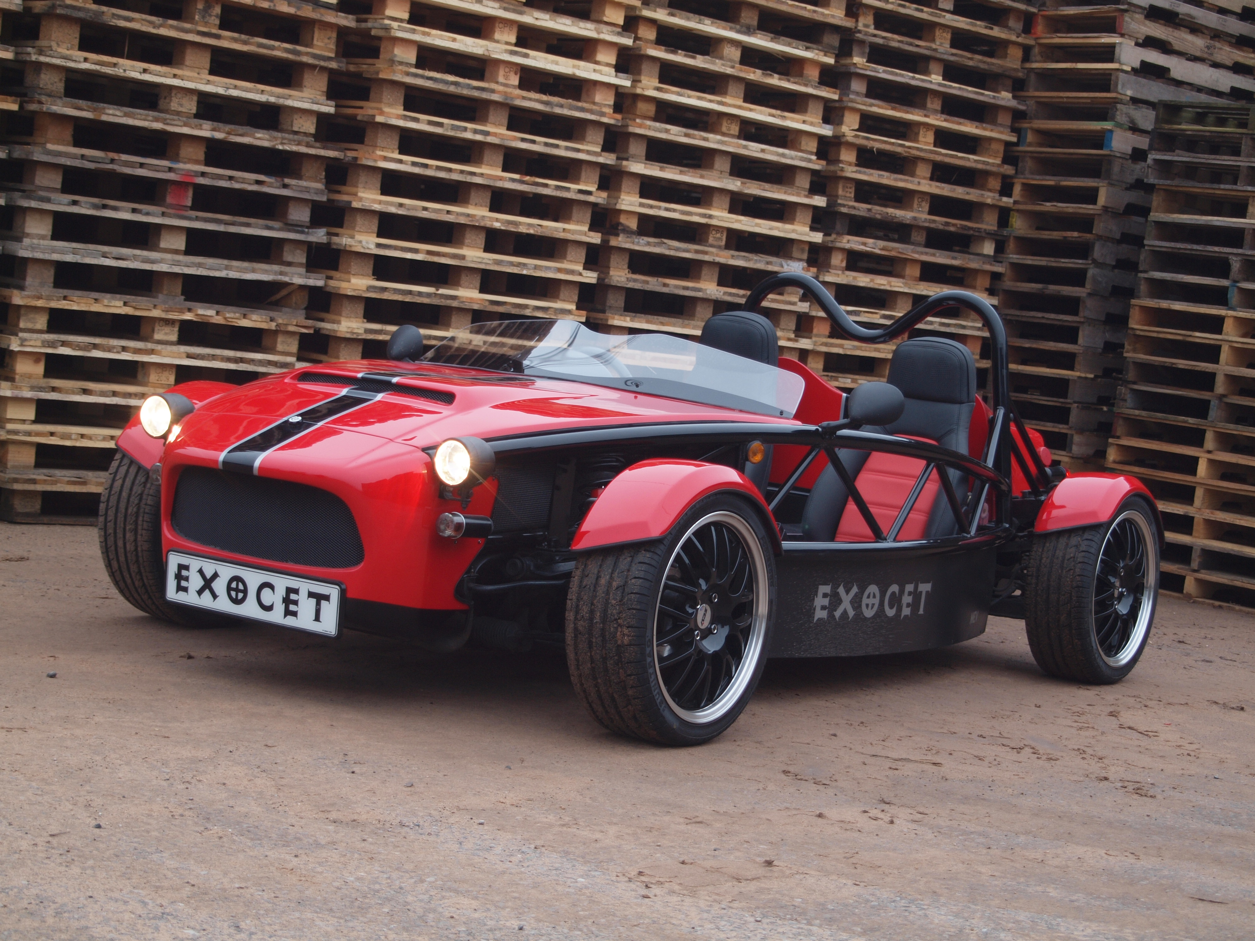 MEV Exocet exoskeleton kit car front three-quarter view in front of stacked palletts